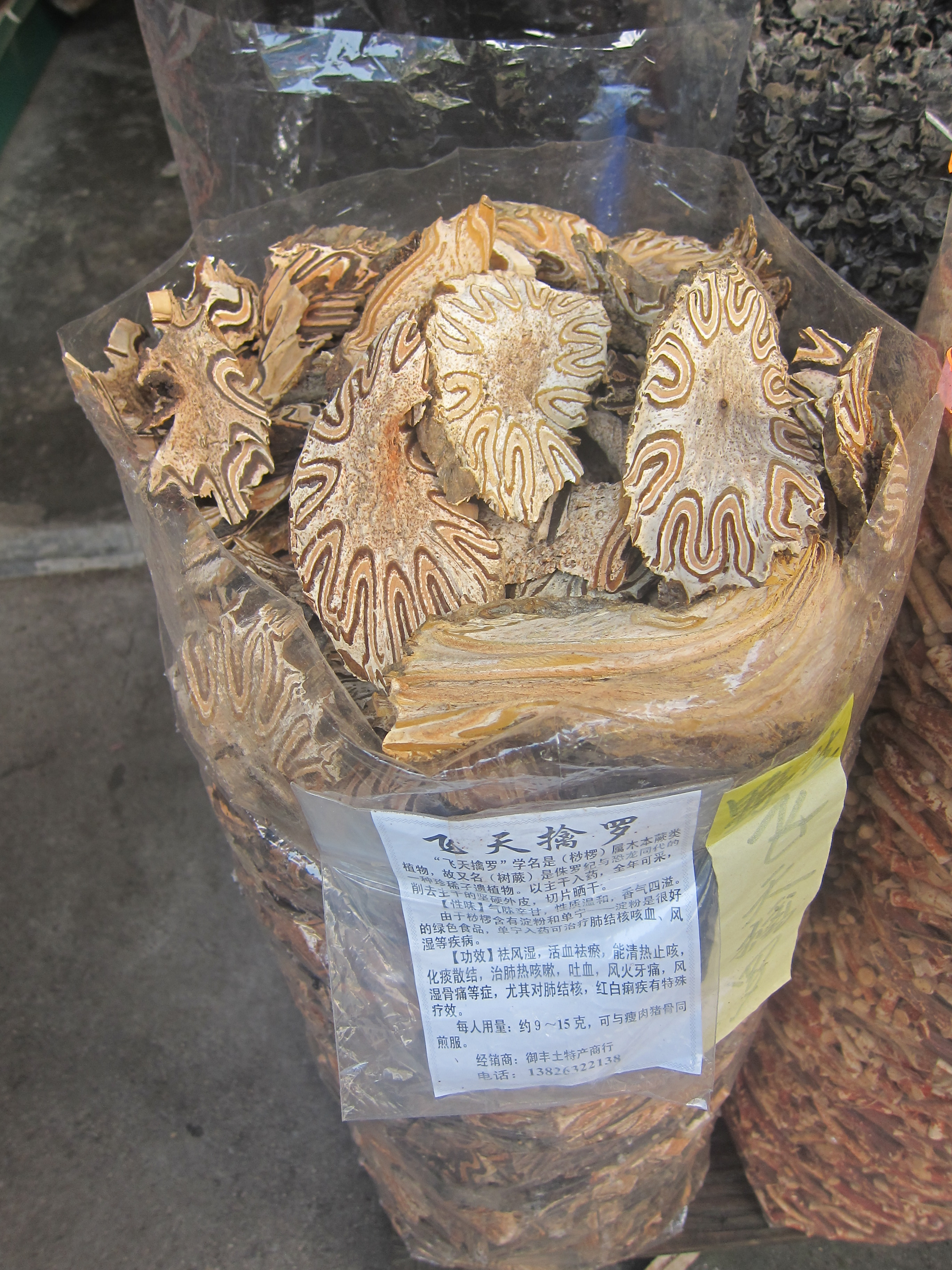 Dried Cyathea podophylla for sale in Mount Danxia